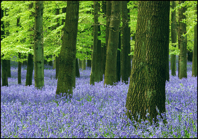 Wall to wall Bluebells, Dockey Wood,Ashridge Common Almost the entire woodland floor is carpeted with flowers in the springtime.